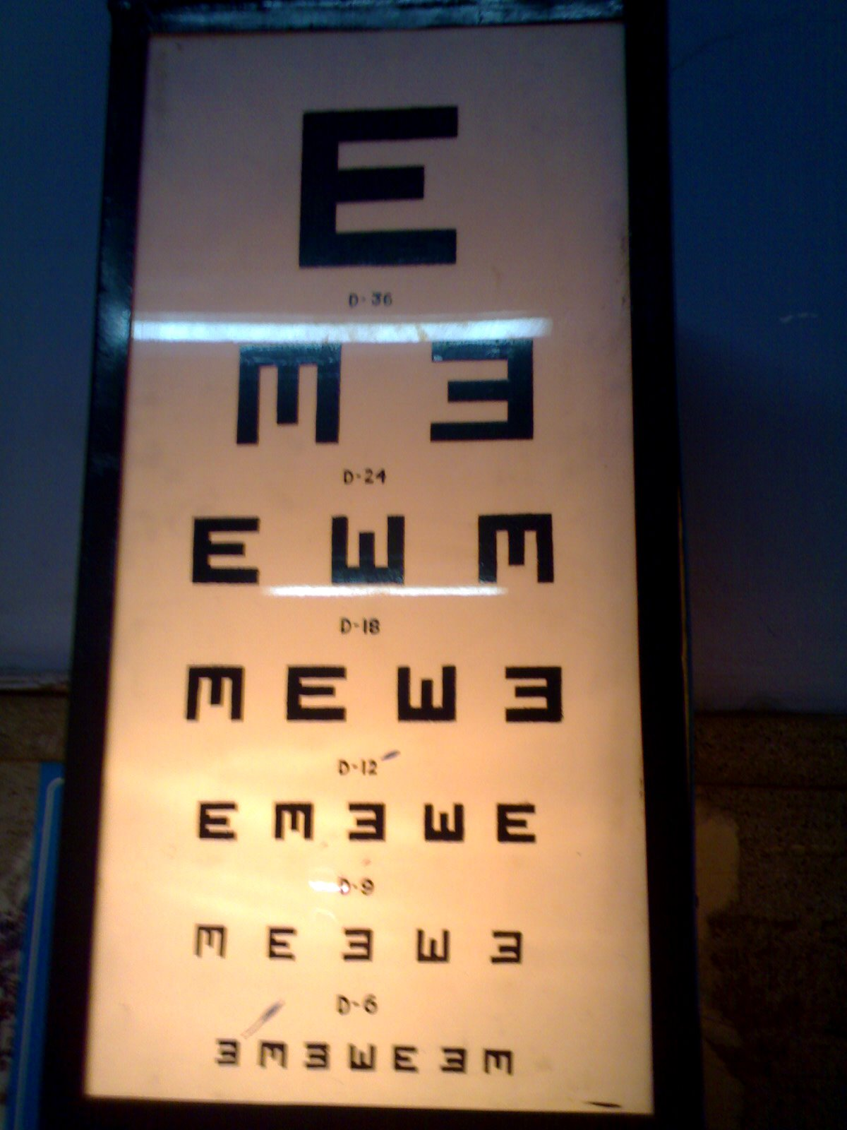 An eye chart (E chart) for assessment of distant visual acuity.